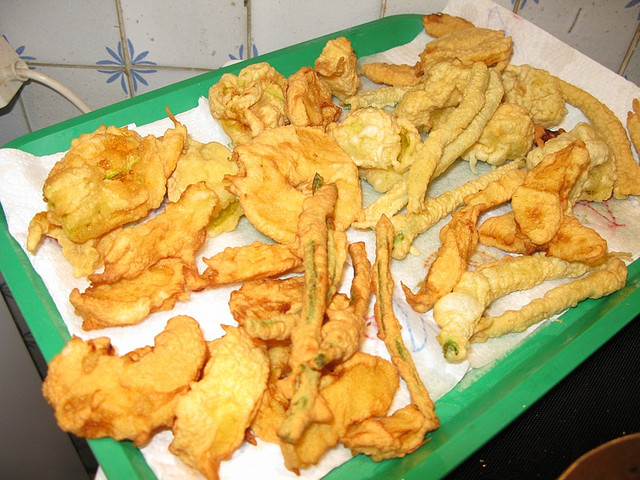 Zuchini flowers in beignets - and beignets of green beans and apple Camera: Canon PowerShot G9 License on Flickr (2011-01-07): CC-BY-SA-2.0 Flickr tags: france, food, foodOD